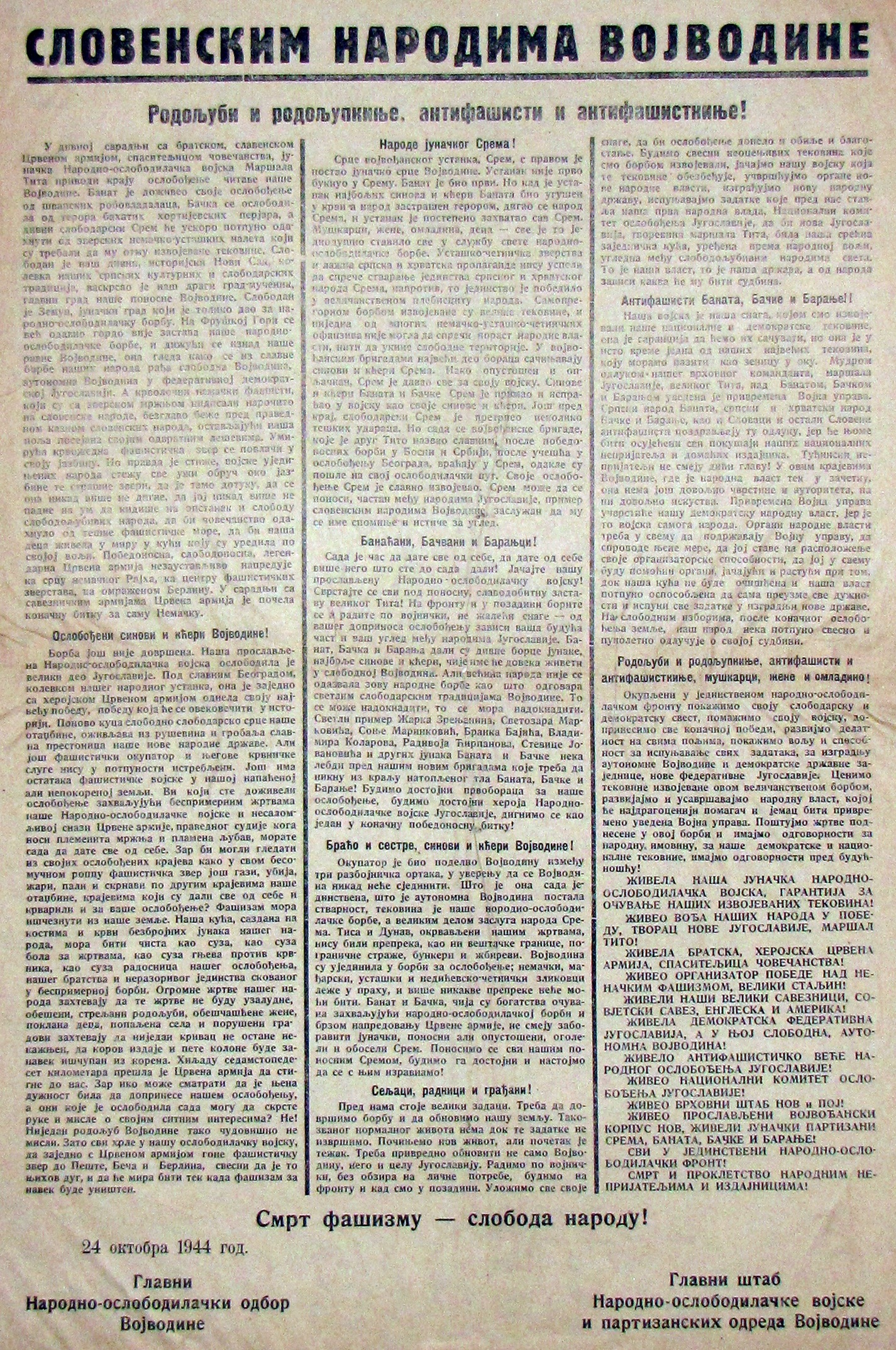 Proclamation of the Main National Liberation Committee of Vojvodina, 24 October 1944